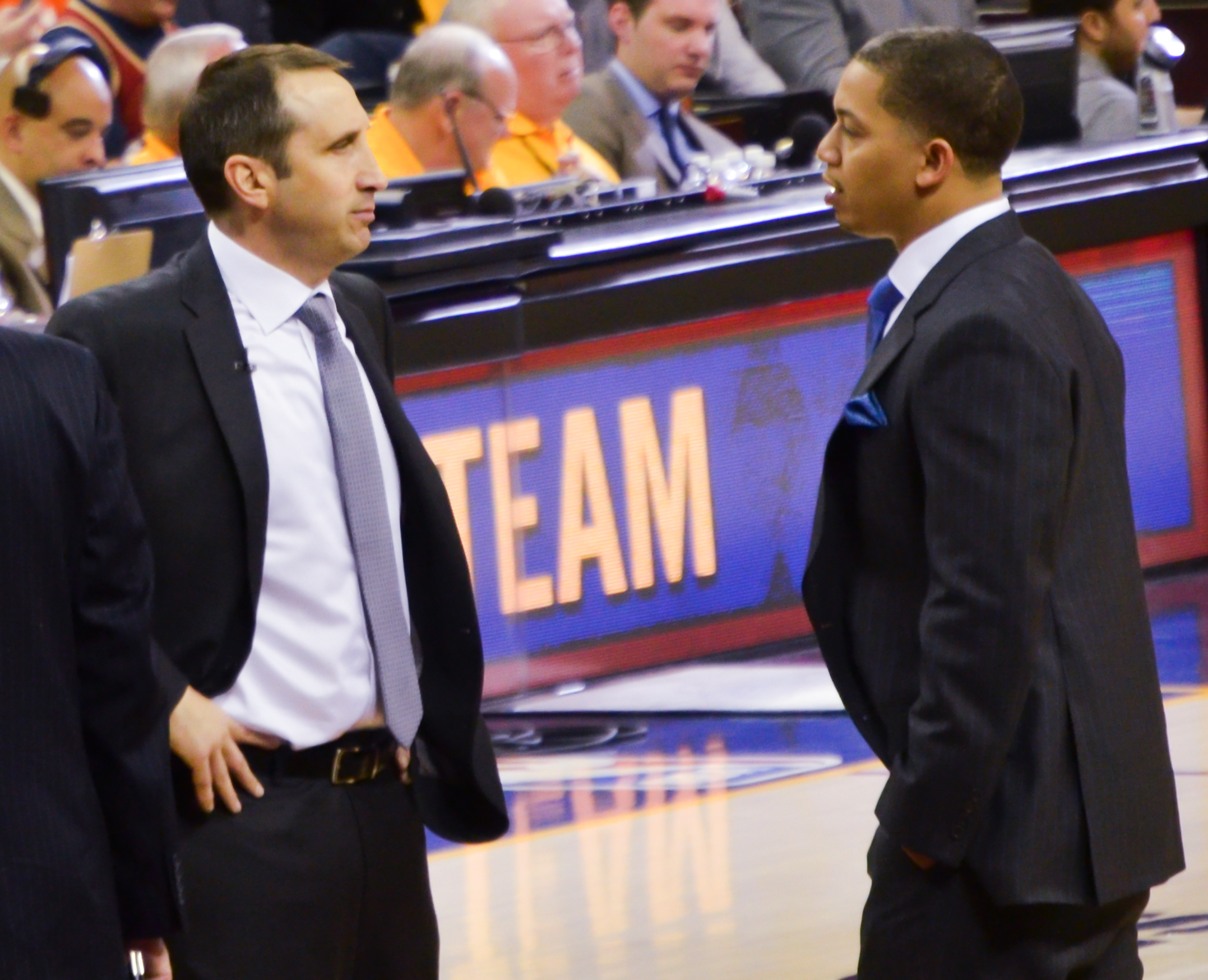 Cleveland Cavaliers head coach David Blatt and assistant coach Tyronn Lue at the Quicken Loans Arena for the Cavs' game against Oklahoma City Thunder.